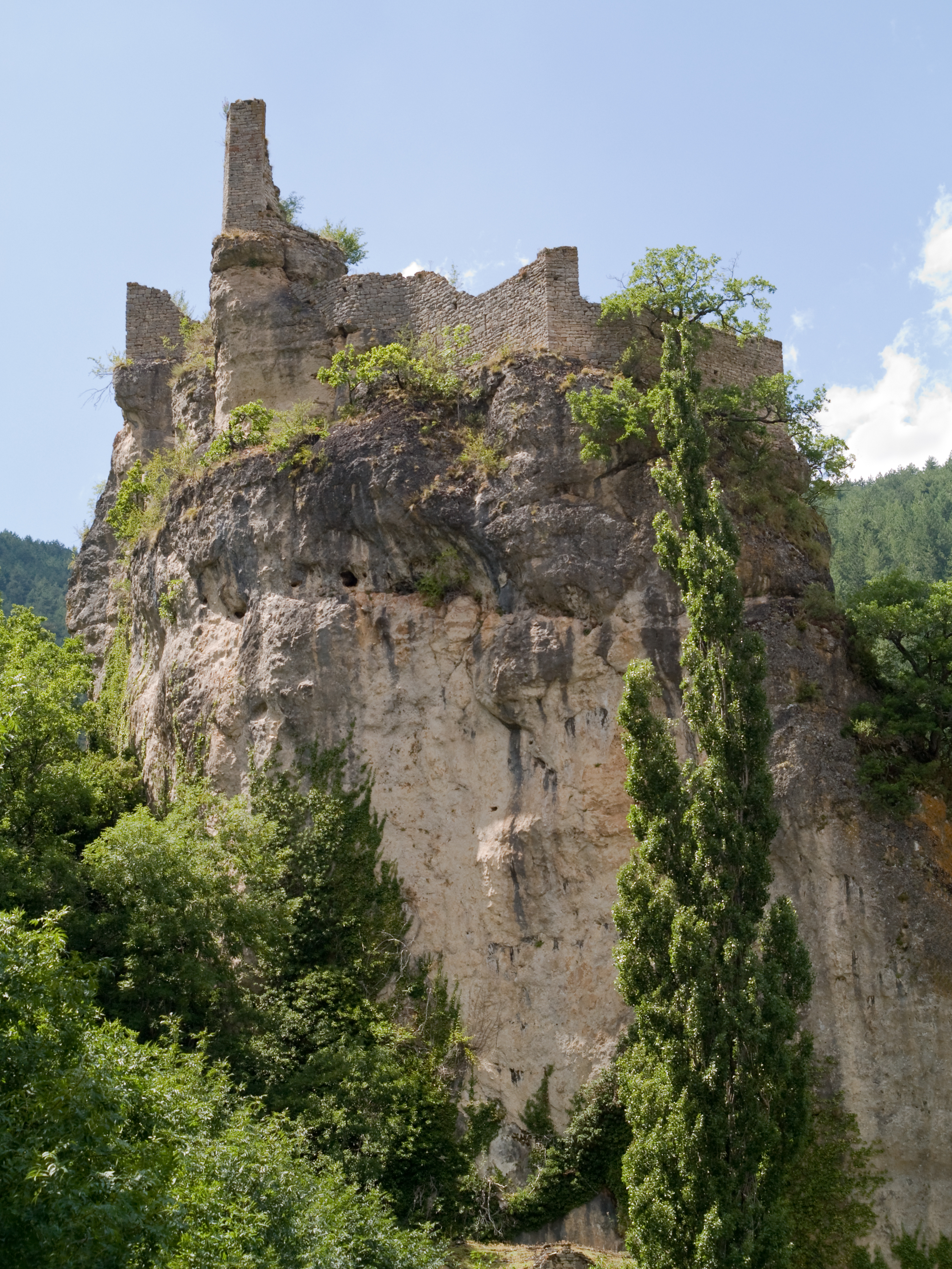 The ruins of the castle of Castelbouc, in the Gorges du Tarn (Lozère, France).